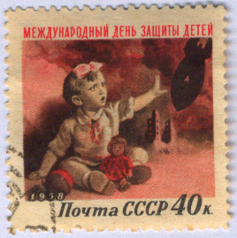 International Children's Day. Commemorated on the 1958 USSR stamp (number 2160 in the Soviet catalogue).